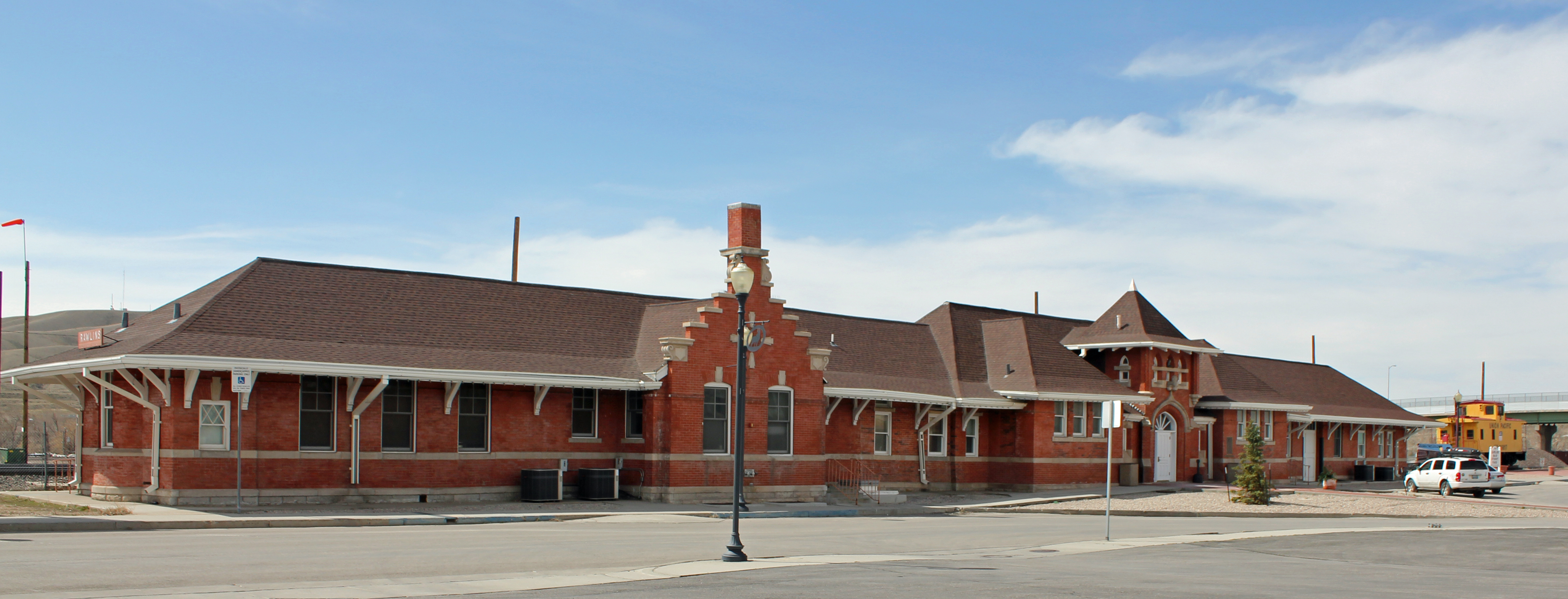 The Union Pacific Railroad Depot, located on North Front Street in Rawlins, Wyoming. The property is listed on the National Register of Historic Places. 48CR1223